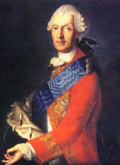 Ludwig Günther IV von Schwarzburg -Rudolstadt